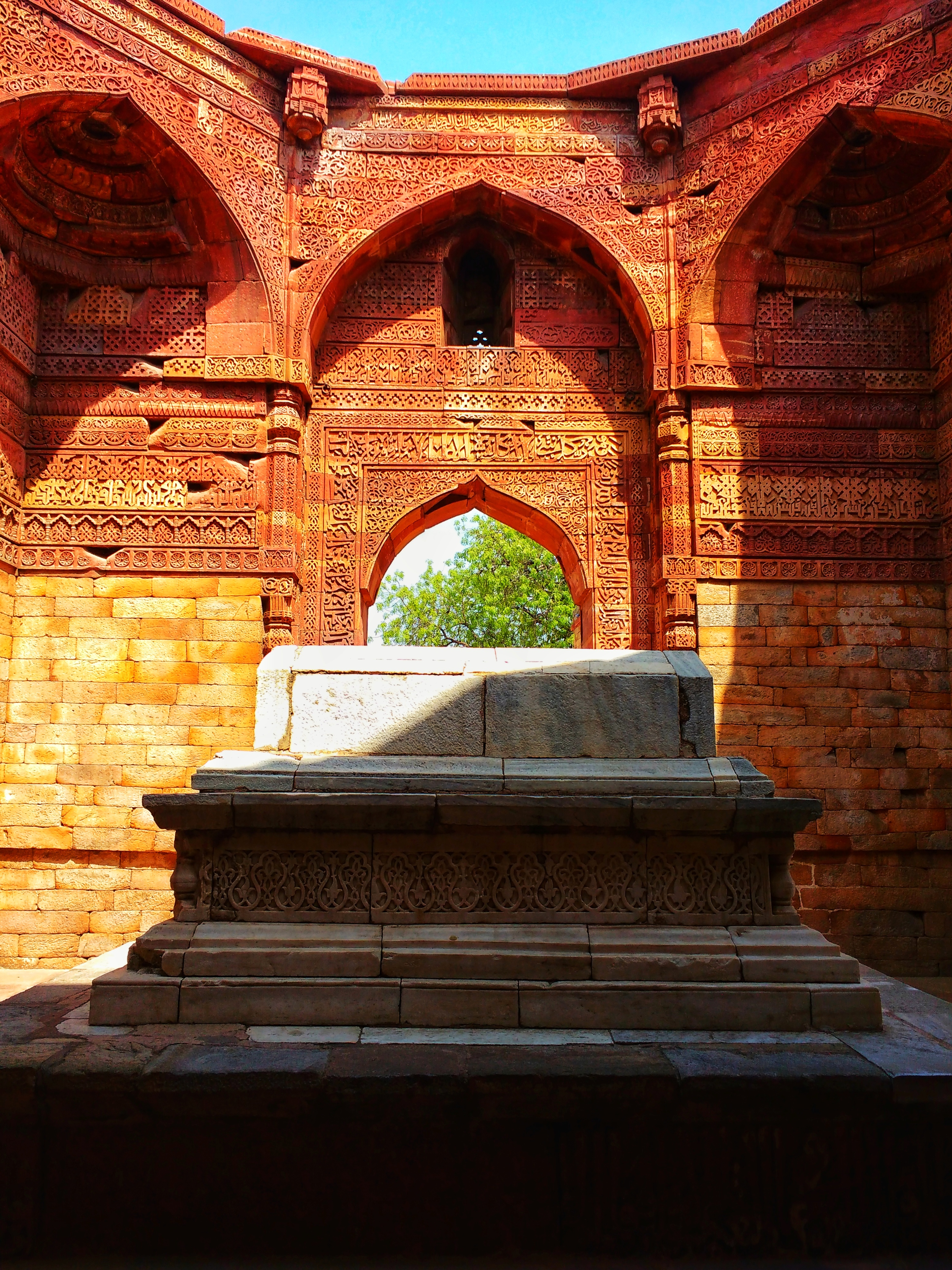 This is a beautiful picture of Iltutmish Tomb. In which you can see the sunshine which almost dividing the scene into half.